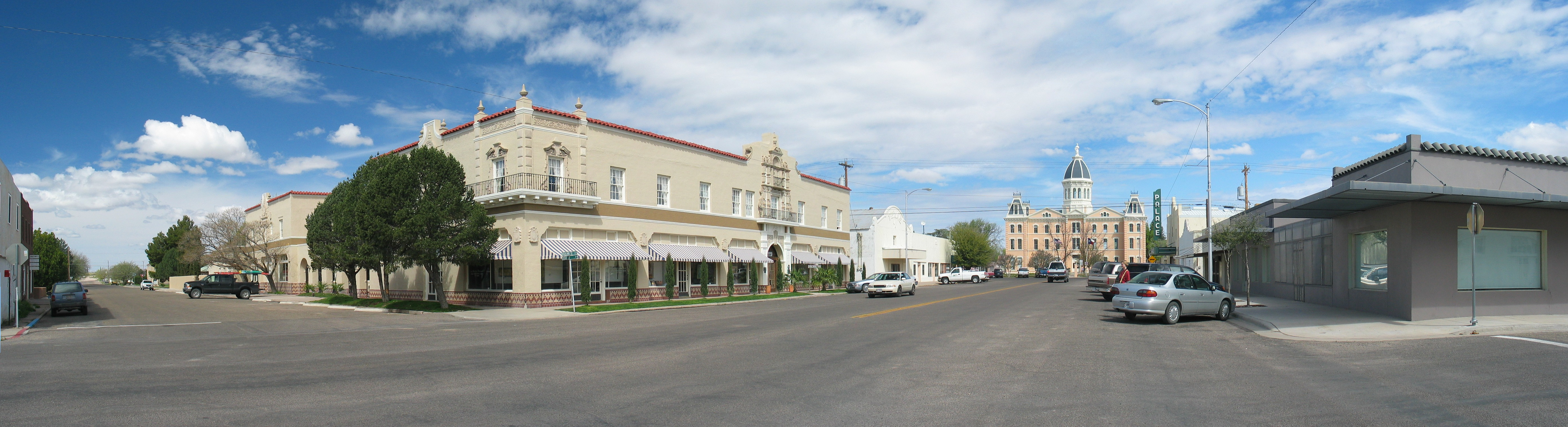 Hotel Paisano and City Hall of Marfa, Texas.